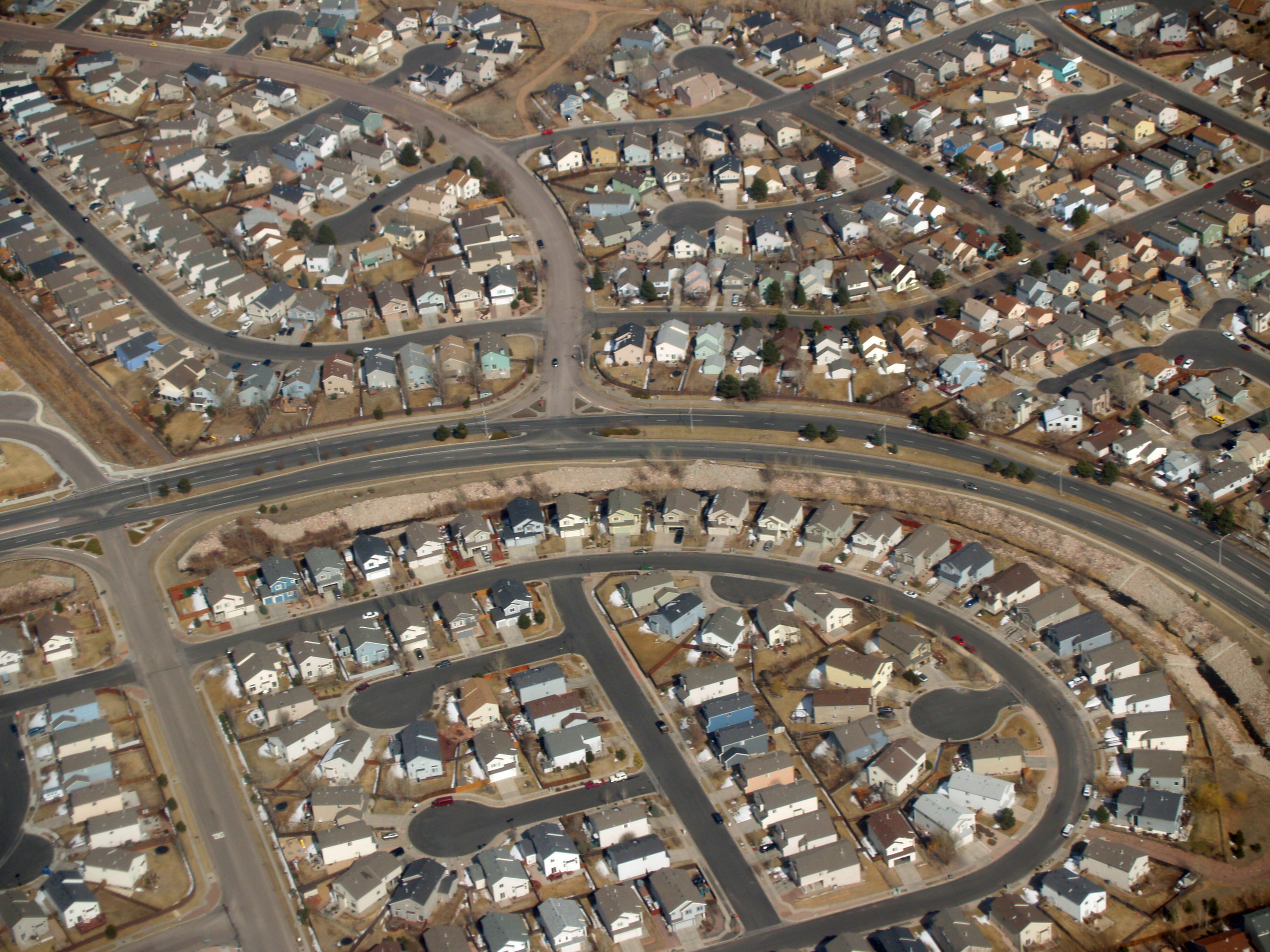 Suburban development in a northeastern section of Colorado Springs, Colorado, looking largely eastward. The four-lane highway is Charlotte Parkway; Anna Lee Way joins it at the top center and Jackpot Drive at the far left. At the bottom center is Naturita Trail; the coordinates are for the spot midway between the two culs-de-sac, Malachite Court (near) and Ophir Court (far).